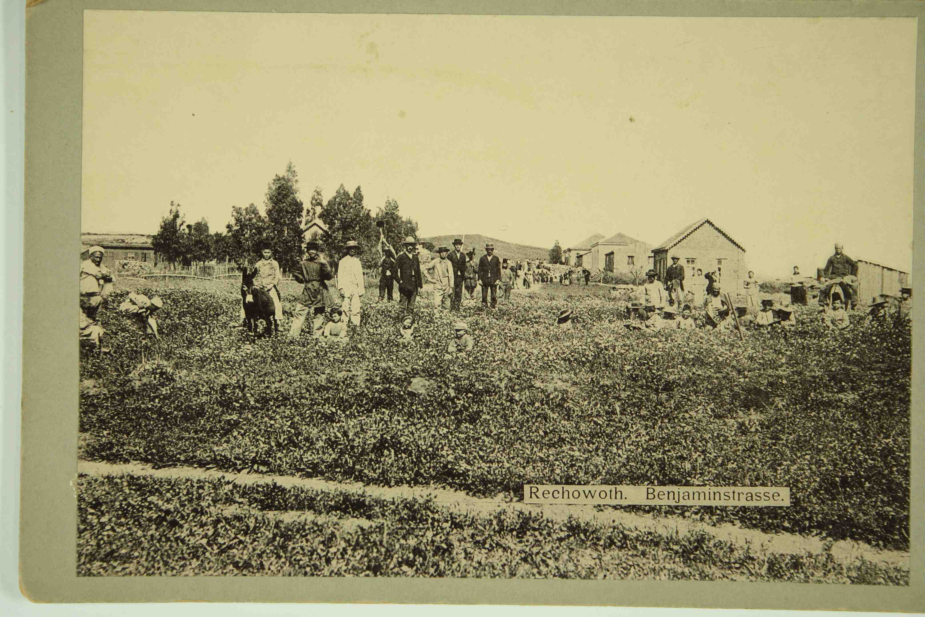 People of the Settlement Rehovot 1893